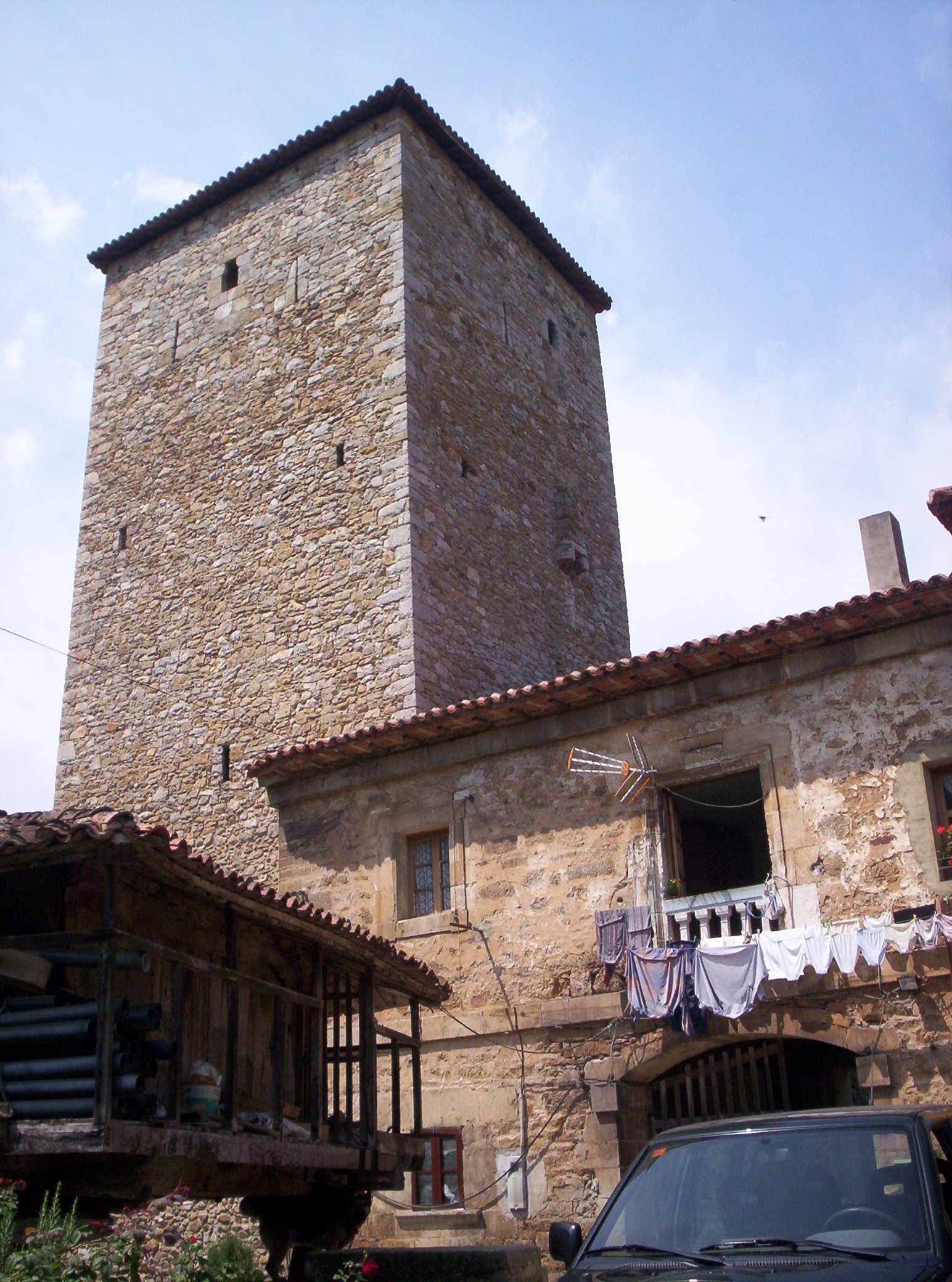 Tower of Miranda palace in Villanueva de los Infantes, Asturias